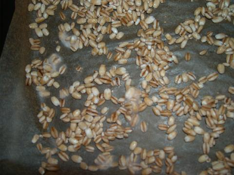 Mildew in cereal grains.